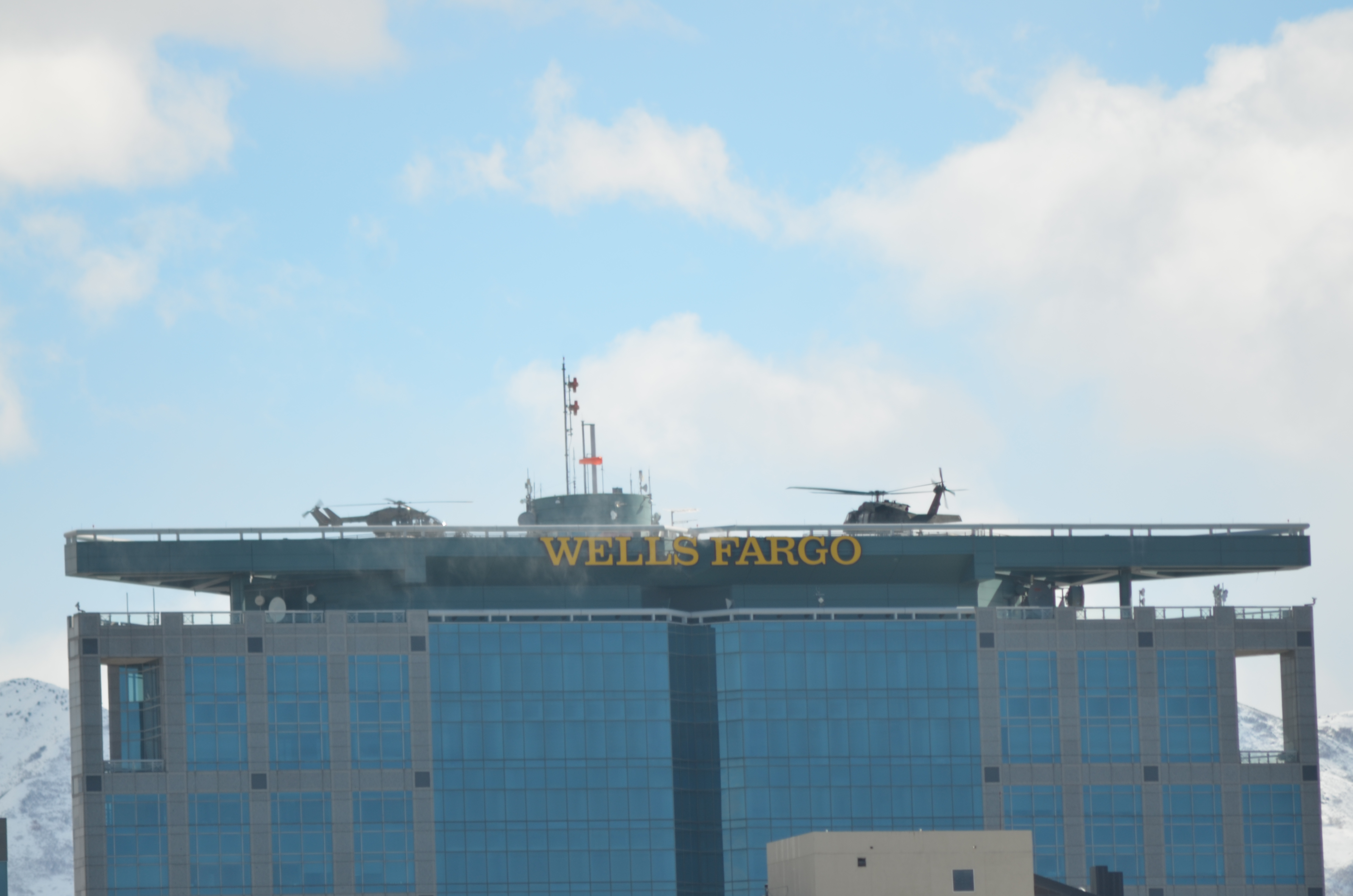 On 2 February 2019 the Utah National Guard utilized the dual helipads on the roof of the Wells Fargo Center in Salt Lake City for rooftop landing practice. The two rooftop helipads form the American Stores Heliport (UT31), and are the only skyscraper-mounted helipads in the state.